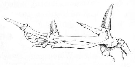 Bones of the wings of Anhimidae (Screamers).